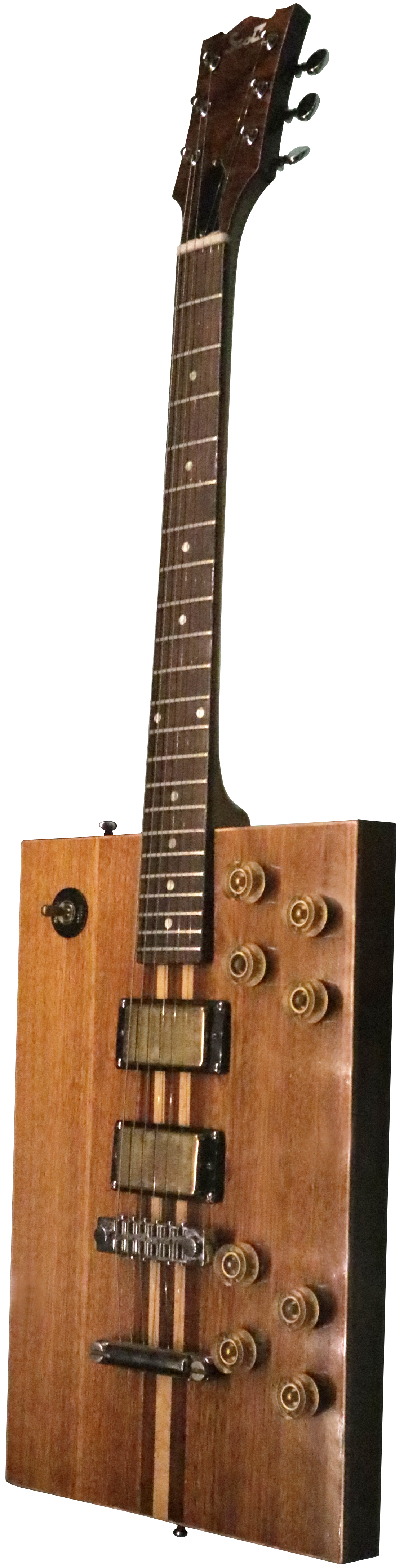 Bo Diddley' rectangular guitar (Rock and Roll Hall of Fame, Cleveland, OH).